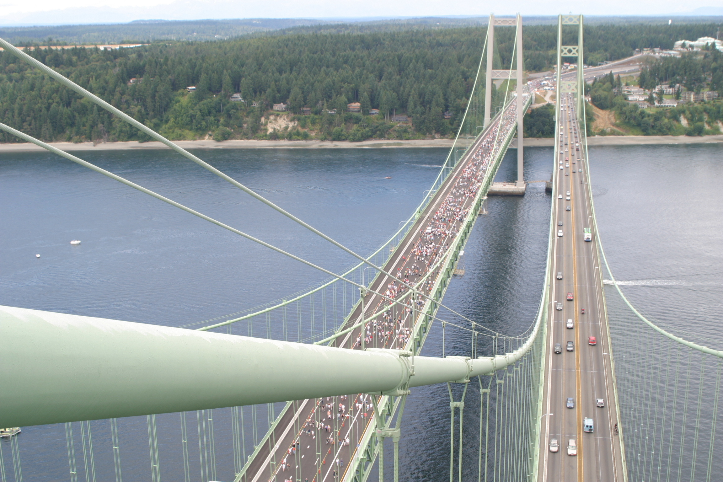 Opening ceremony of the Tacoma Narrows bridge. From the Washington State Department of Transportation's Flickr stream